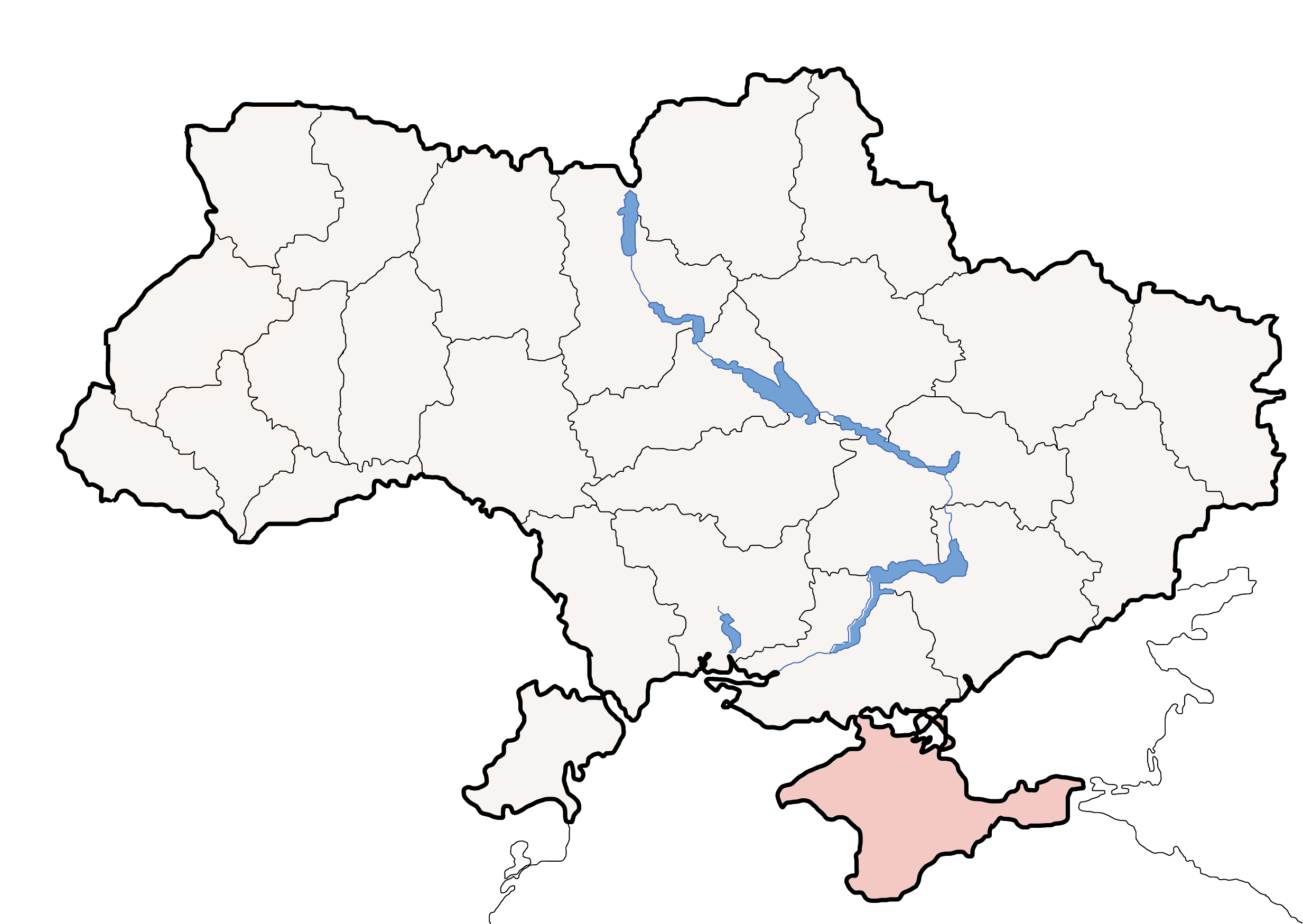 Political map of Ukraine, highlighting Crimean Oblast